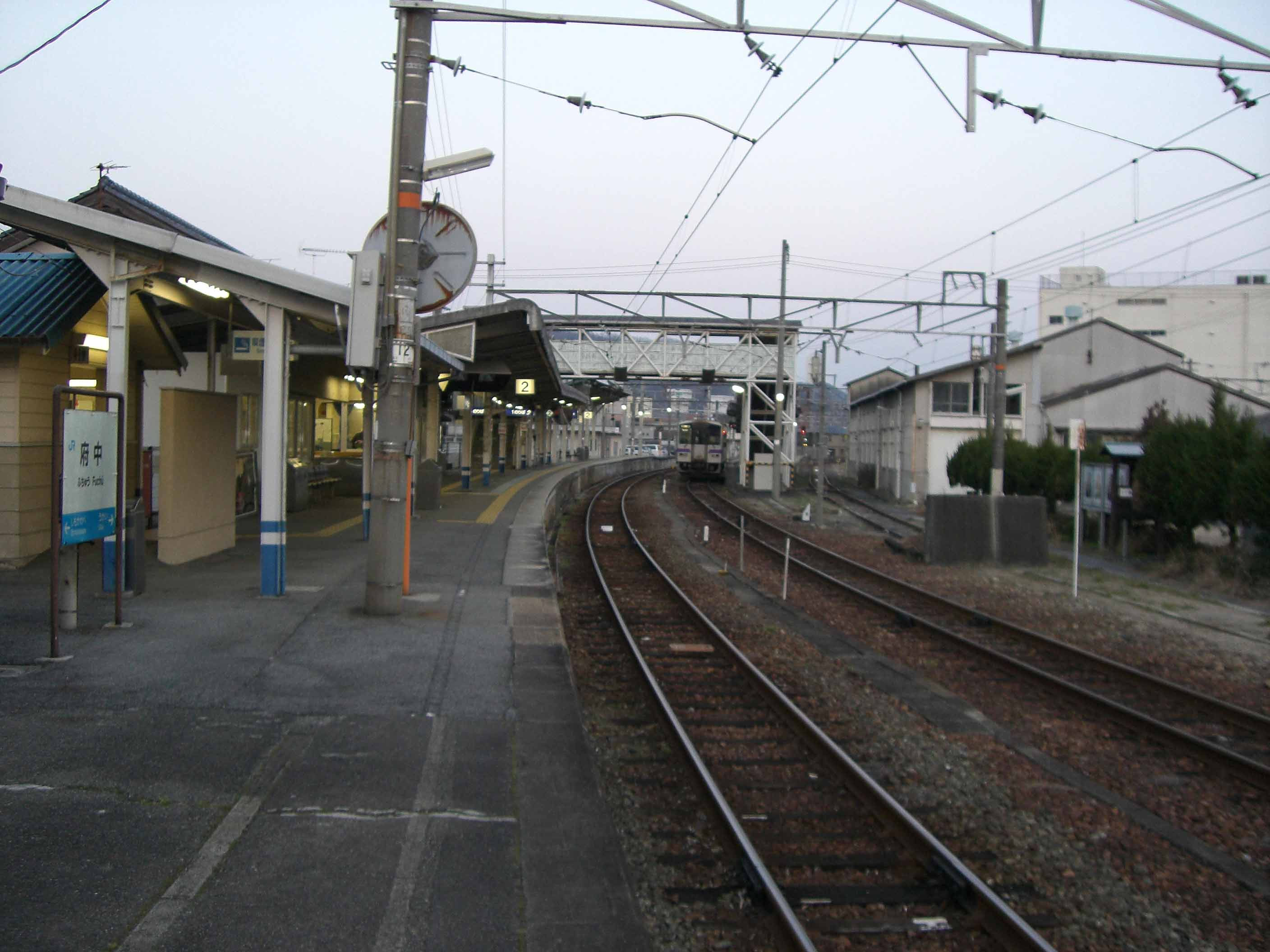 West Japan Railway Company Fukuen Line, Fuchū Station.